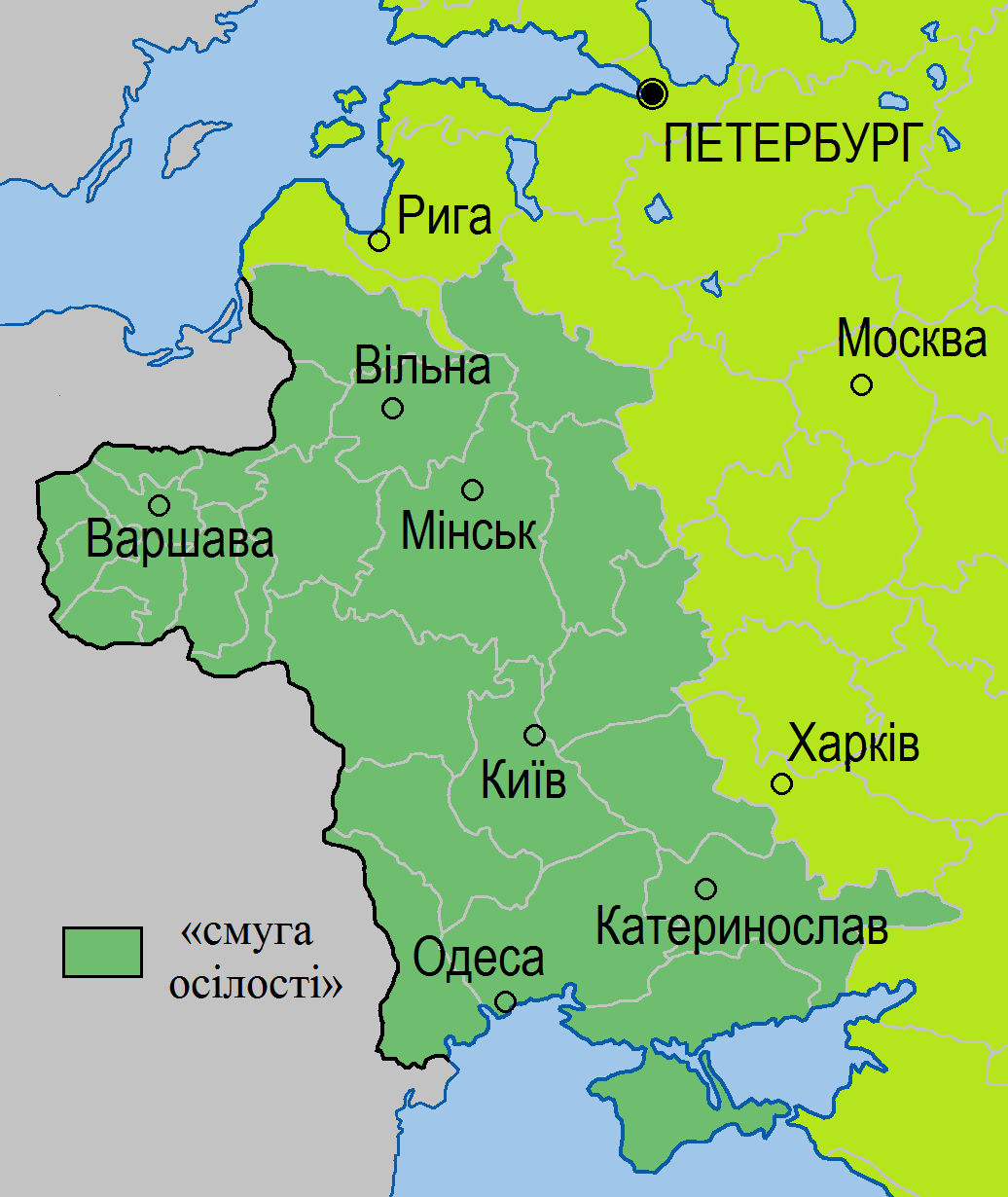 Pale of Settlement (Russian Empire)